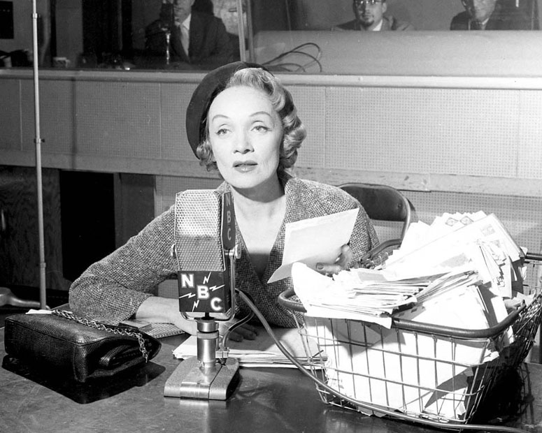 Photo of Marlene Dietrich from the NBC Radio network program Monitor. Dietrich was one of the regular contributors to the weekend radio program. She is not seen here in Monitor's "Radio Central", but in one of the NBC production studios recording her segments.